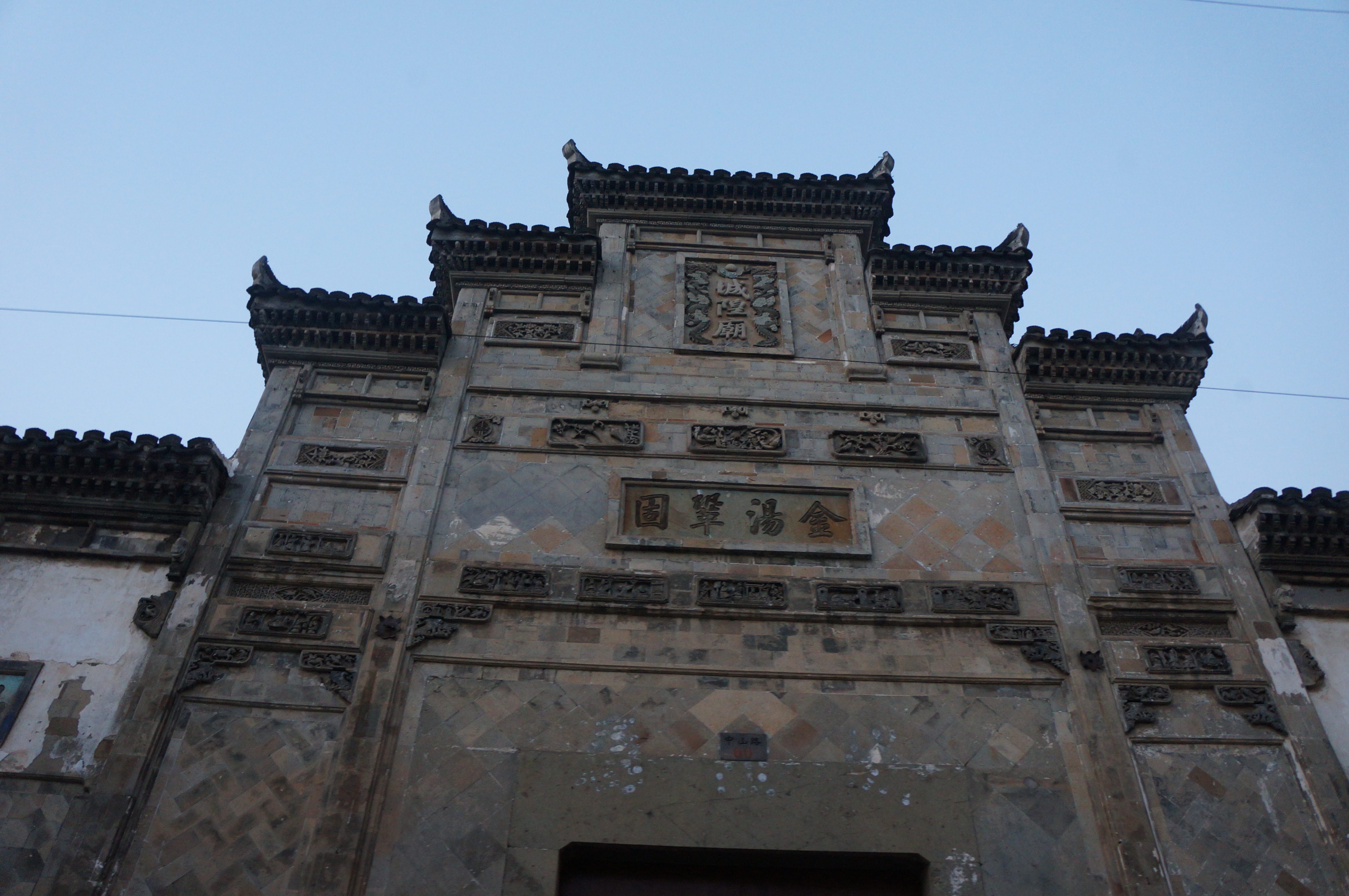 201612 Tangxi Chenghuangmiao located in old downtown of Tangxi